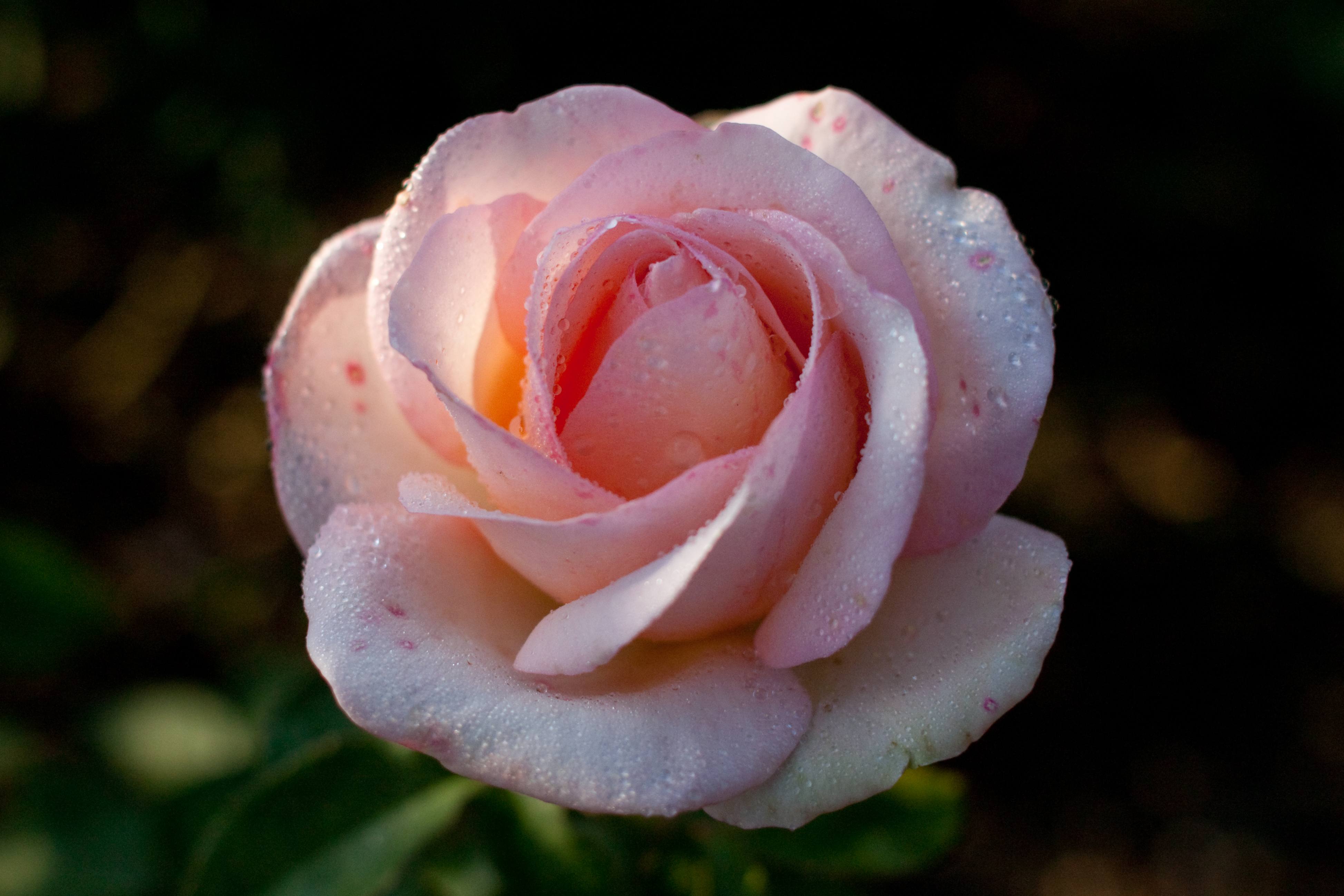 Empress Michiko. Variety is dedicated to the Empress Michiko. エンプレス・ミチコ。皇后美智子様に献呈された品種。